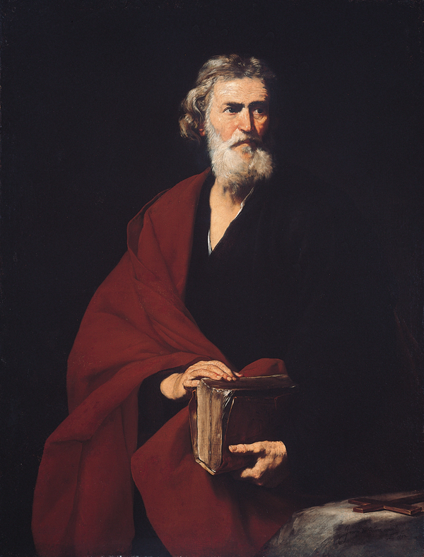 Saint Matthew'